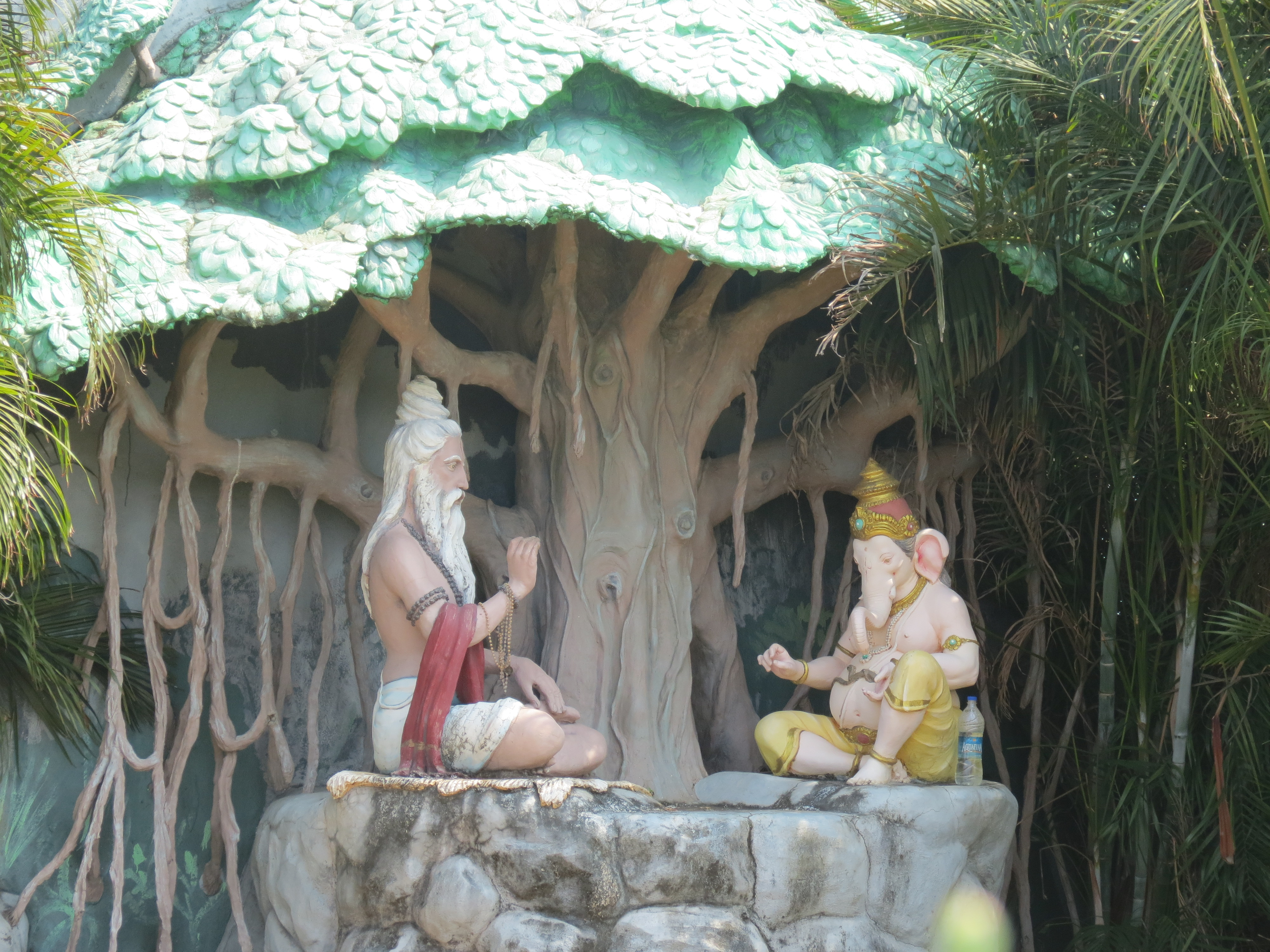 Murudeshwar